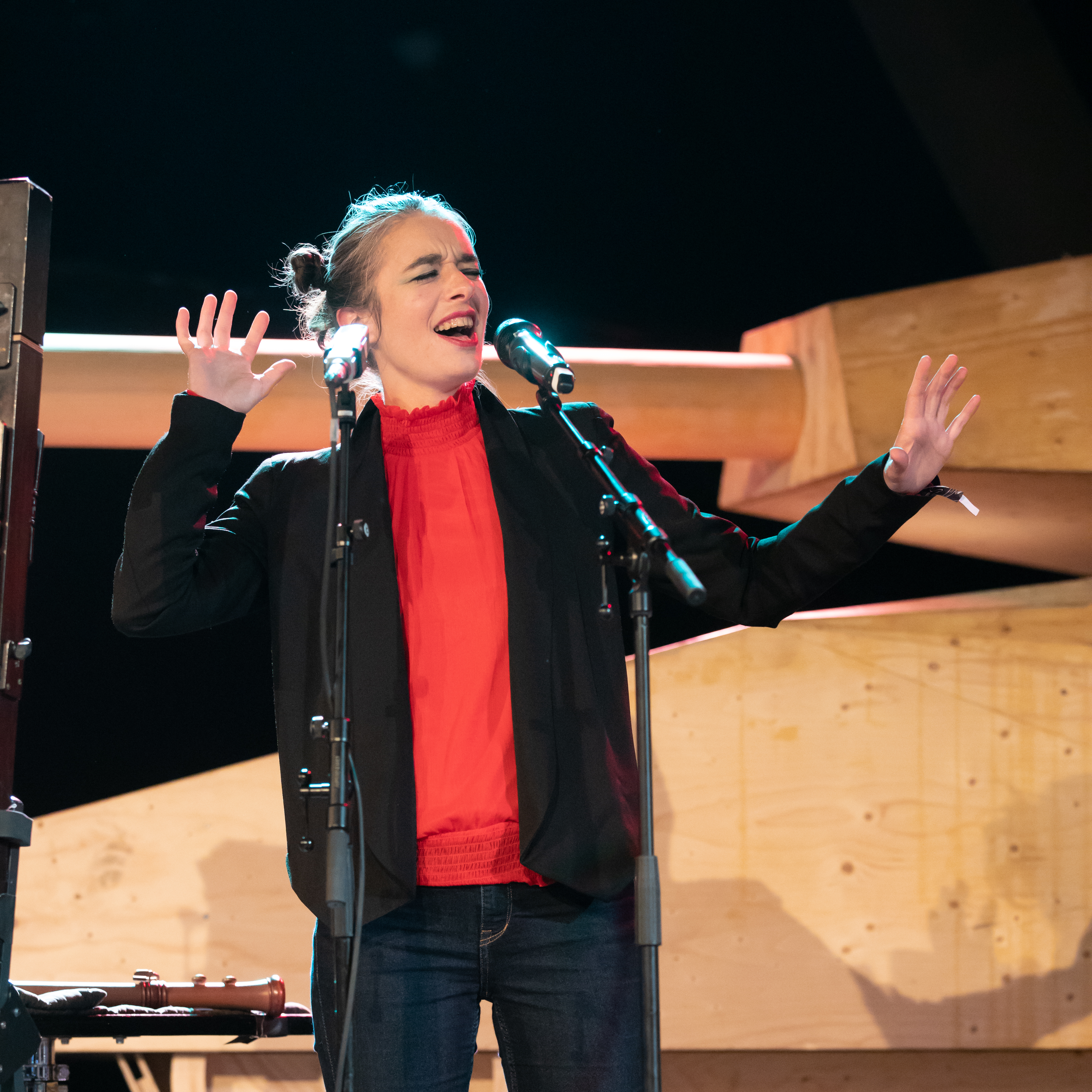 Jazz flutist Josephine Bode at the Moers Festival 2019